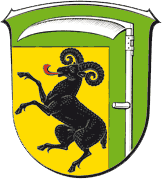 Coat of Arms of Burghaun